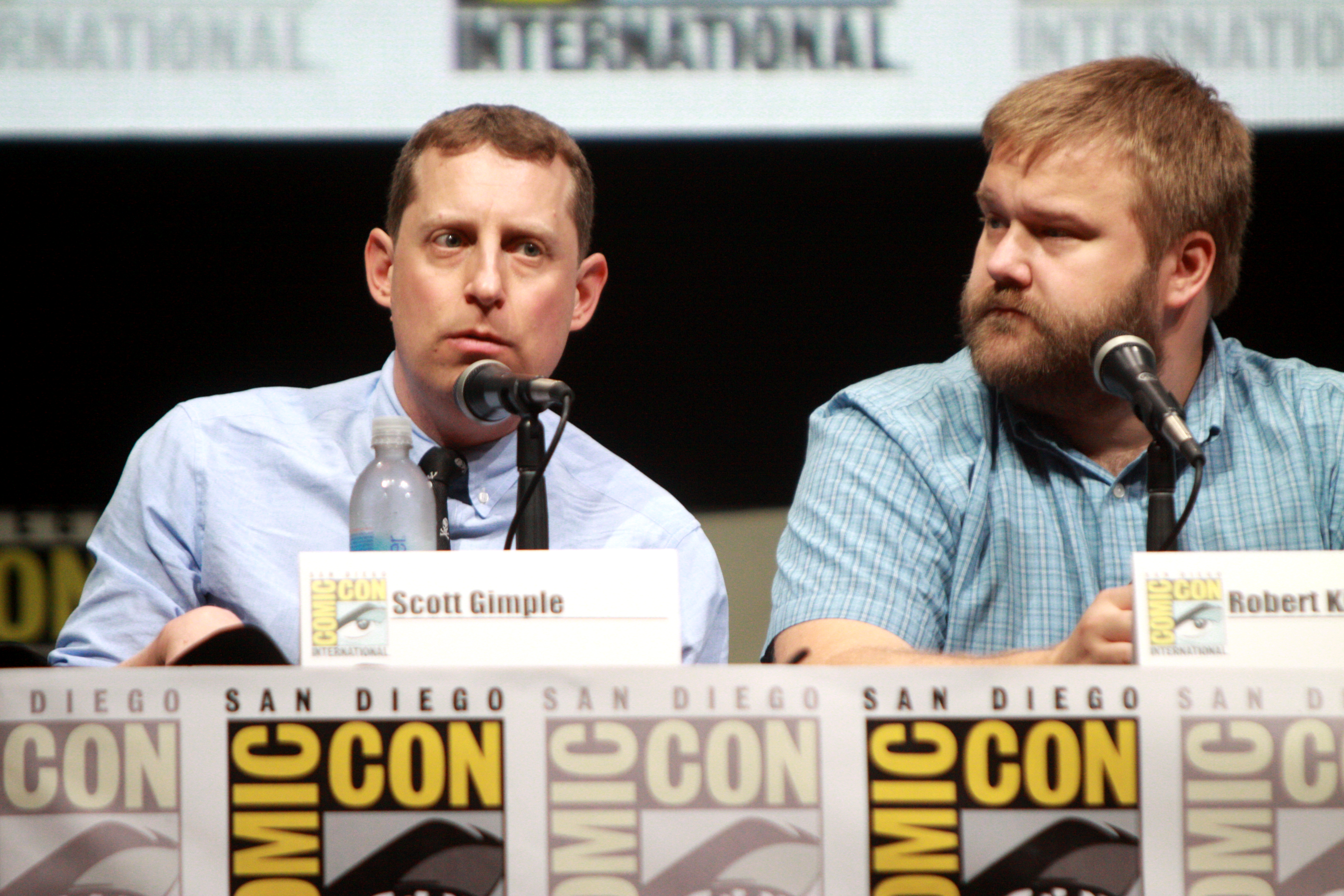 Scott Gimple and Robert Kirkman speaking at the 2013 San Diego Comic Con International, for "The Walking Dead", at the San Diego Convention Center in San Diego, California.